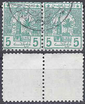 A Moroccan stamp of the early XXth century. The inscription mention the price, 5 mouzouna, a subdivision of the Hassan Rial, the local Moroccan currency until 1913.